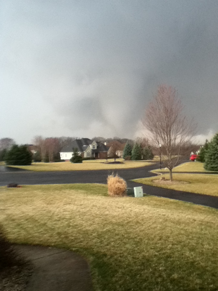 On Thursday, March 15, 2012, the village of Dexter, Michigan was struck by a large EF3 tornado causing substantial damage to local houses and businesses yet no injuries were reported. This photograph was made from a position outside the Brass Creek housing subdivision.